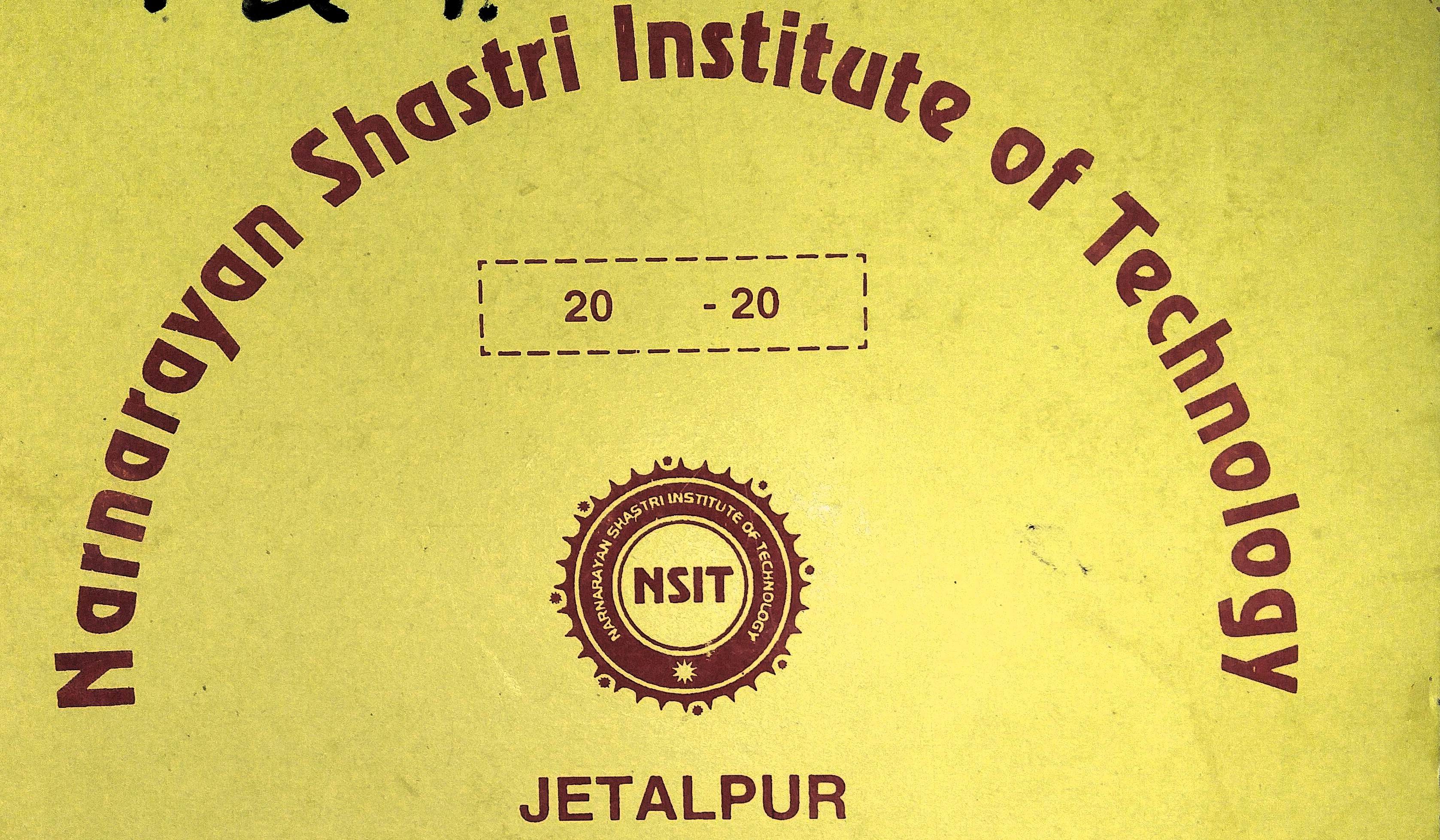 Narnarayan Shastri Institute of Technology Logo